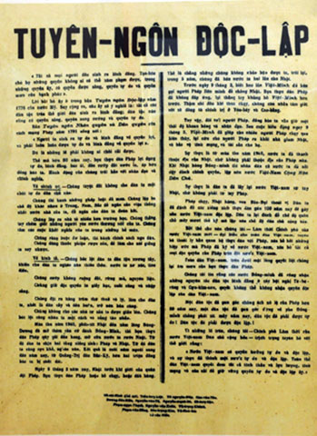 Independent Declaration of Vietnam 1945